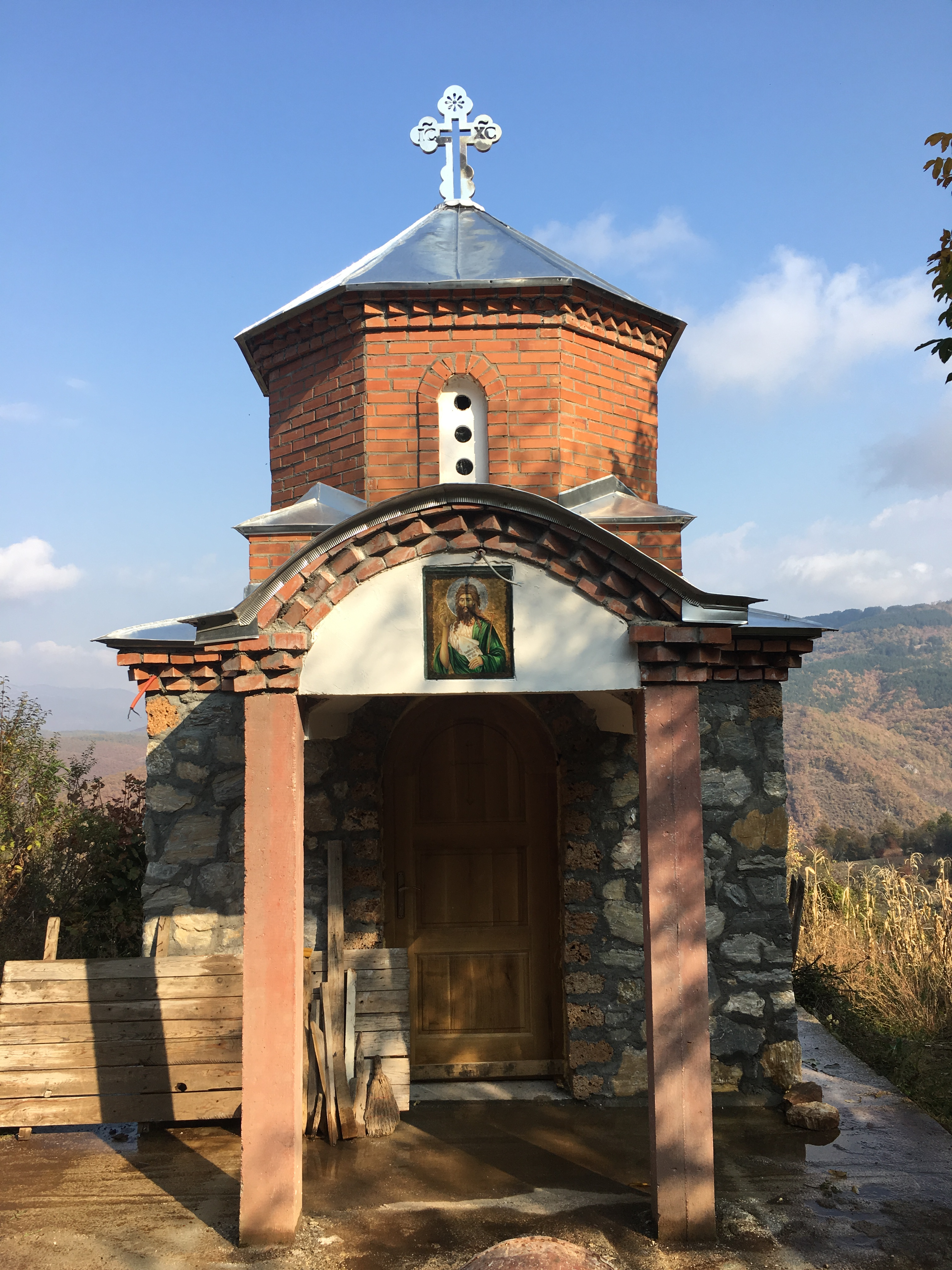 Wikiexpedition to Kopačka